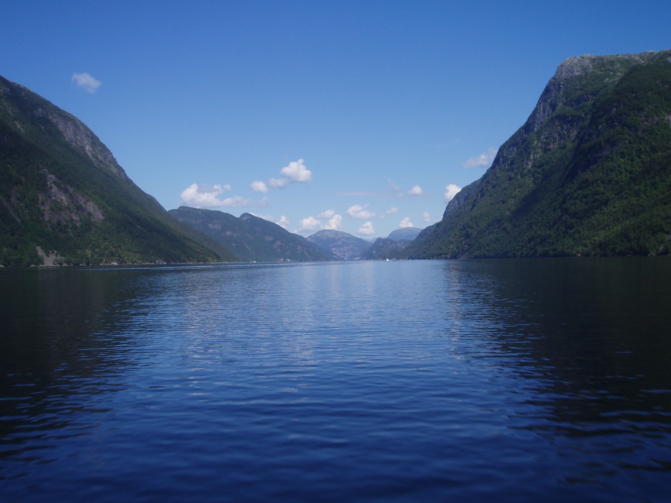 Picture og Veafjorden(The fjord of wood) in Vaksdal kommune in Hordaland, taken northward.